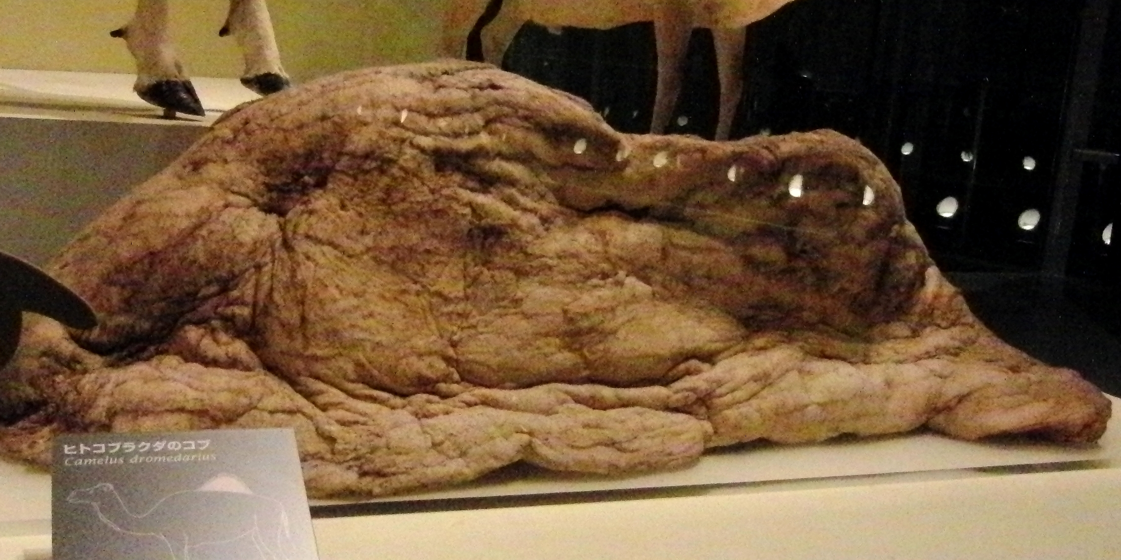 Fat in hump of dromedary (Camelus dromedarius). Exhibit in the National Museum of Nature and Science, Tokyo, Japan.